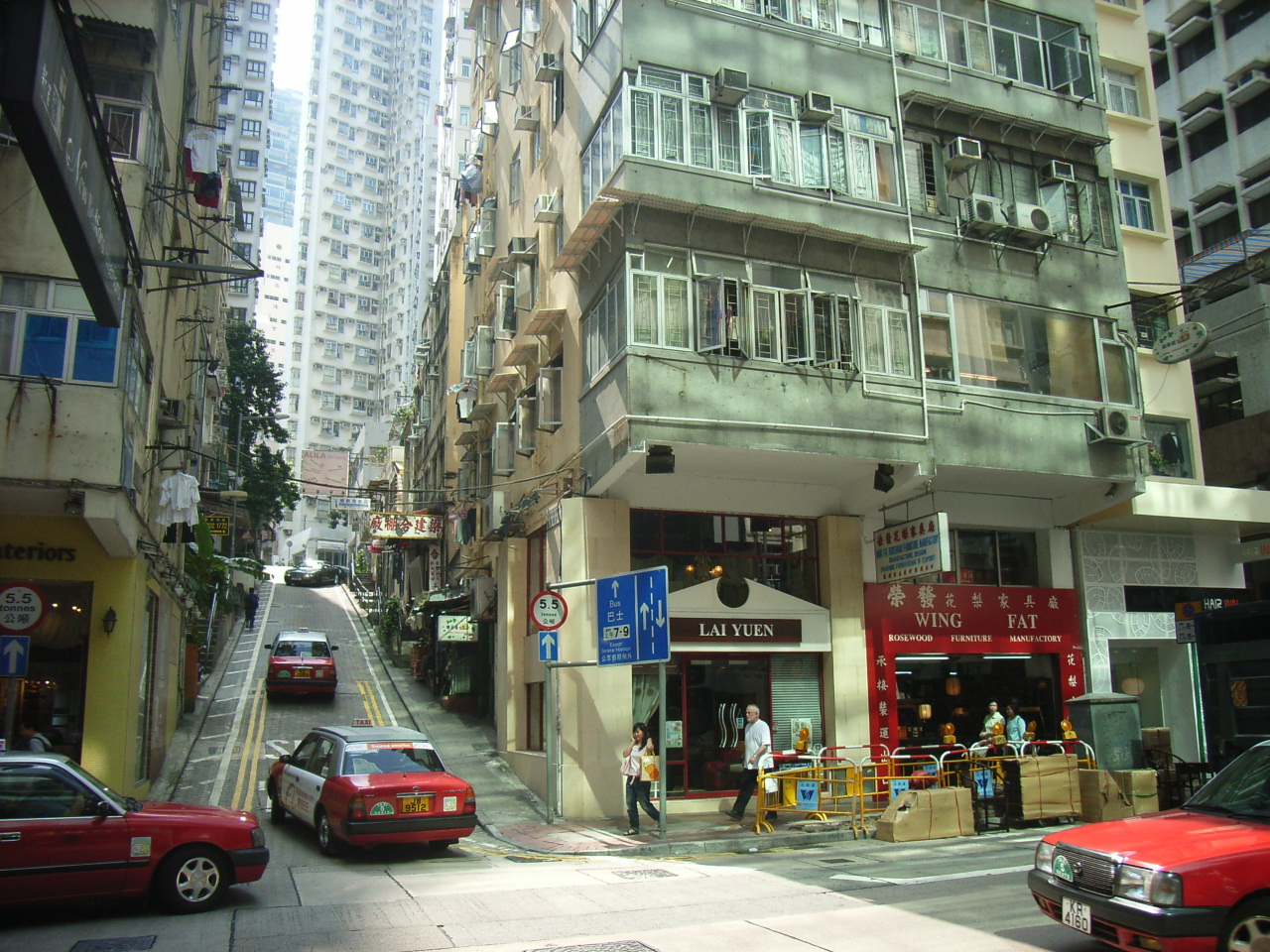 St. Francis Street in Wan Chai, Hong Kong. View of the northern end of the street, at its intersection with Queen's Road East.